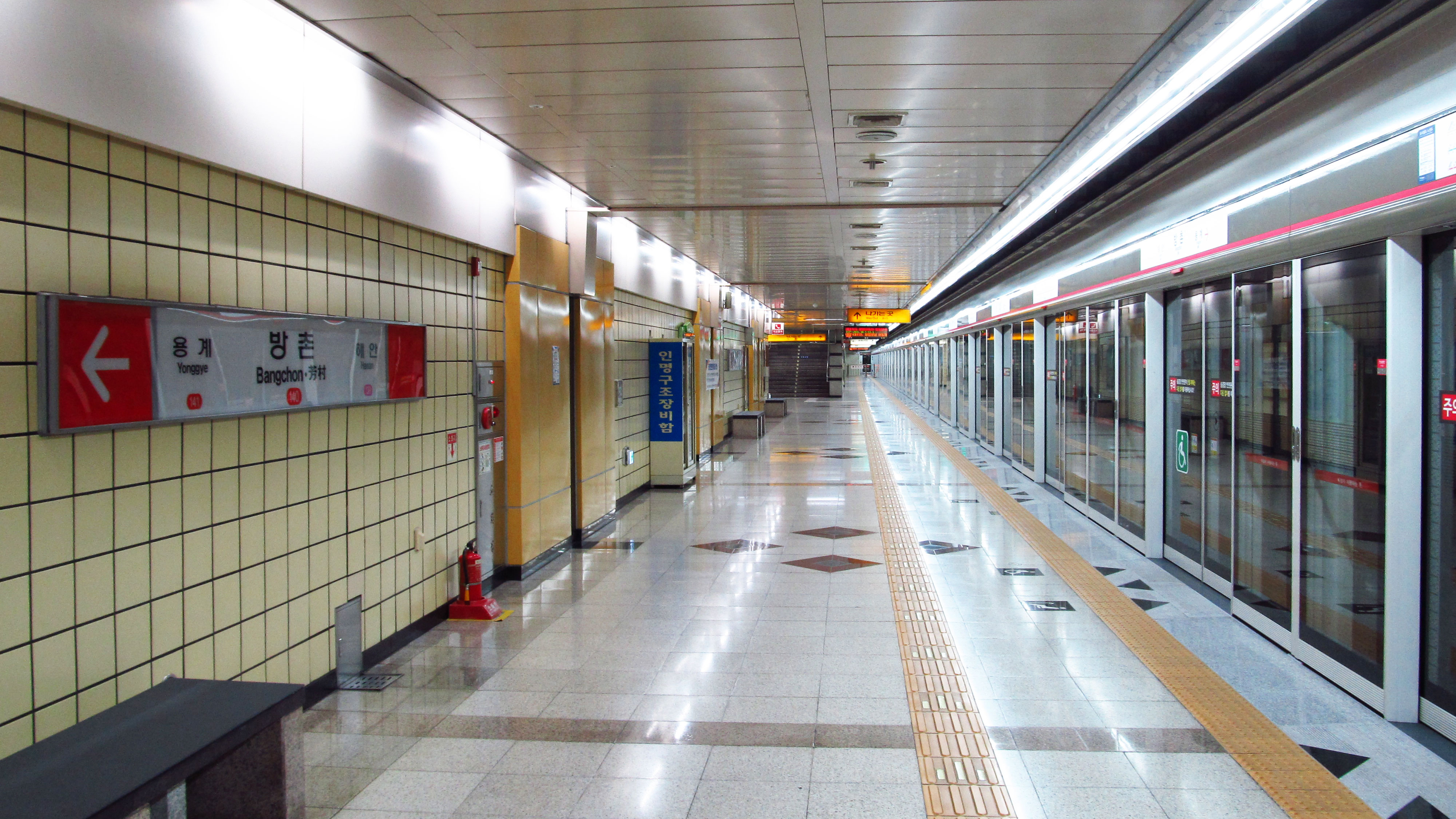 The platform of Bangchon Station on the Daegu Metro Line 1, for Yonggye, Ansim